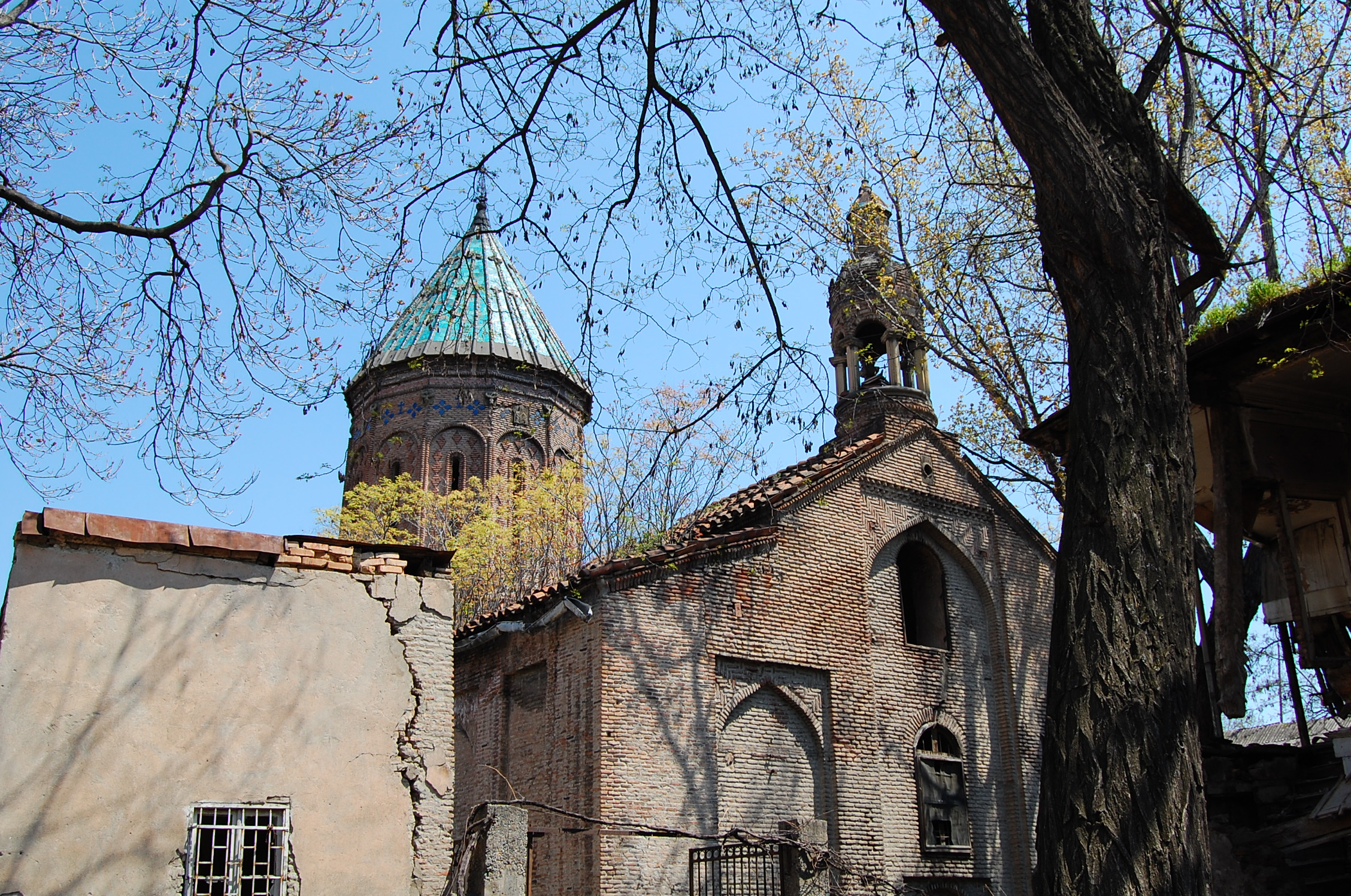 The Armenian Church of the Holy Cross in Tbilisi, Georgia.